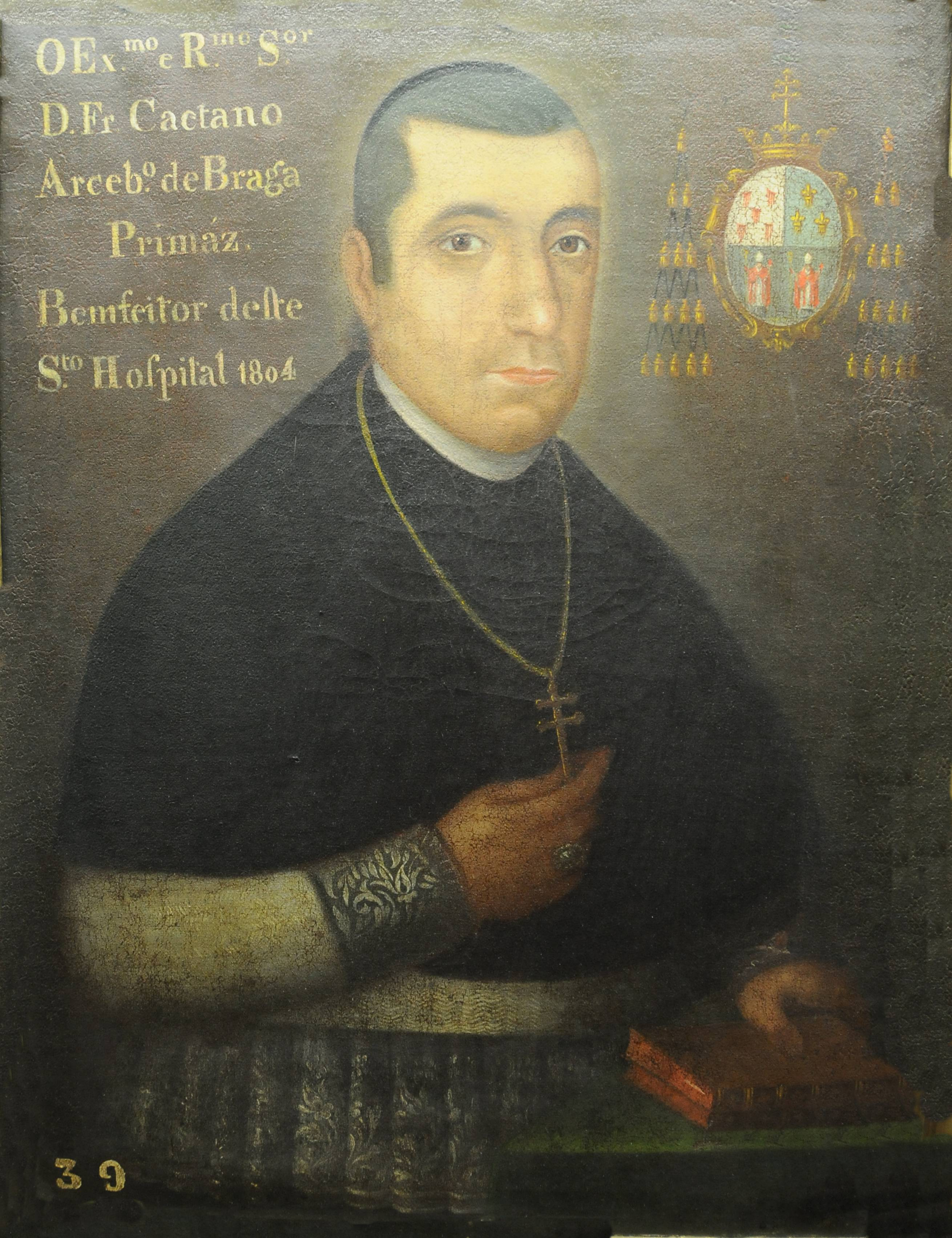 Painting of Caetano Brandão in Hospital de São Marcos, Braga, Portugal.